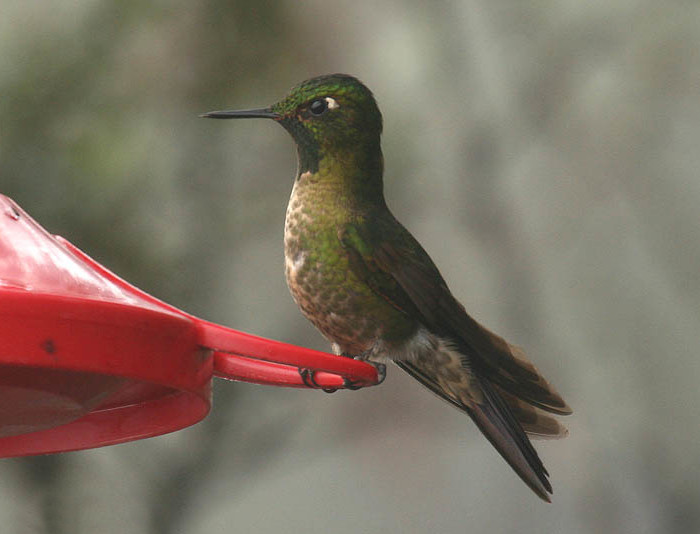 A Tyrian Metaltail (Metallura tyrianthina) in high altitude. Yanacocha Reserve, NW Ecuador 3/8/2007